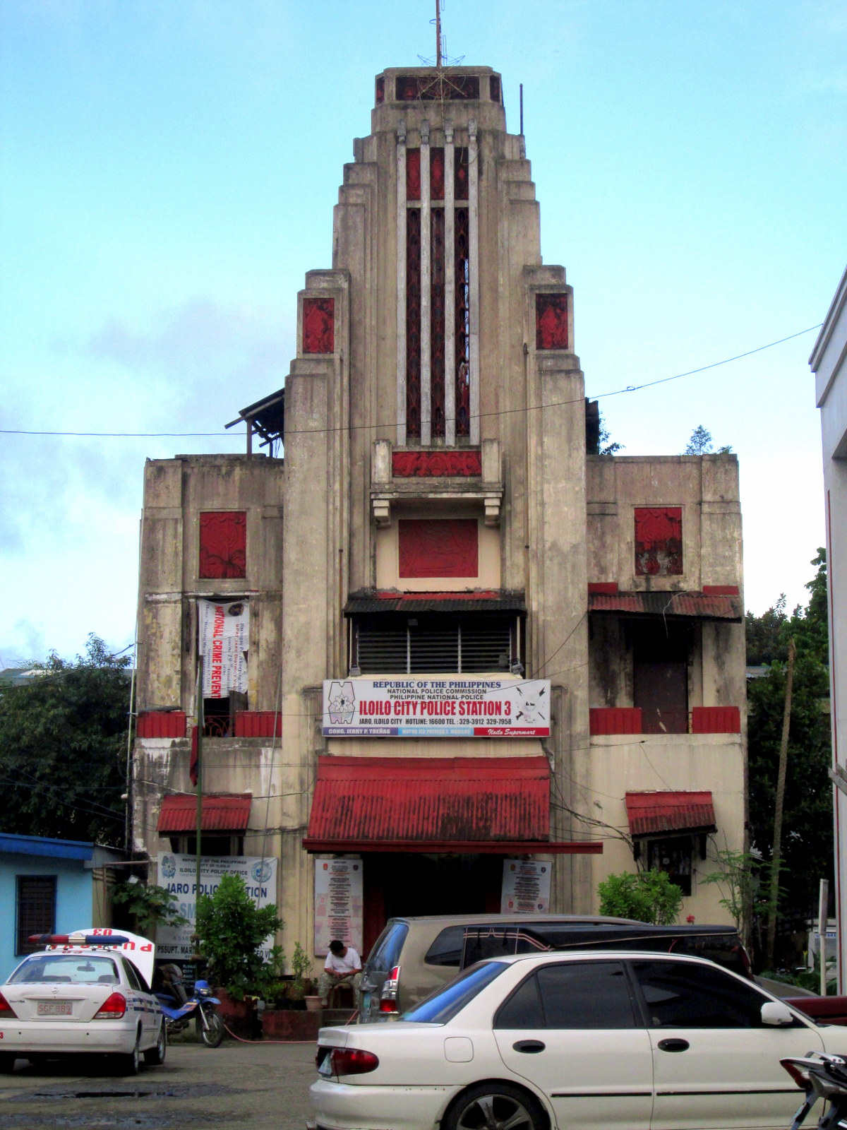 Jaro Municipal Hall